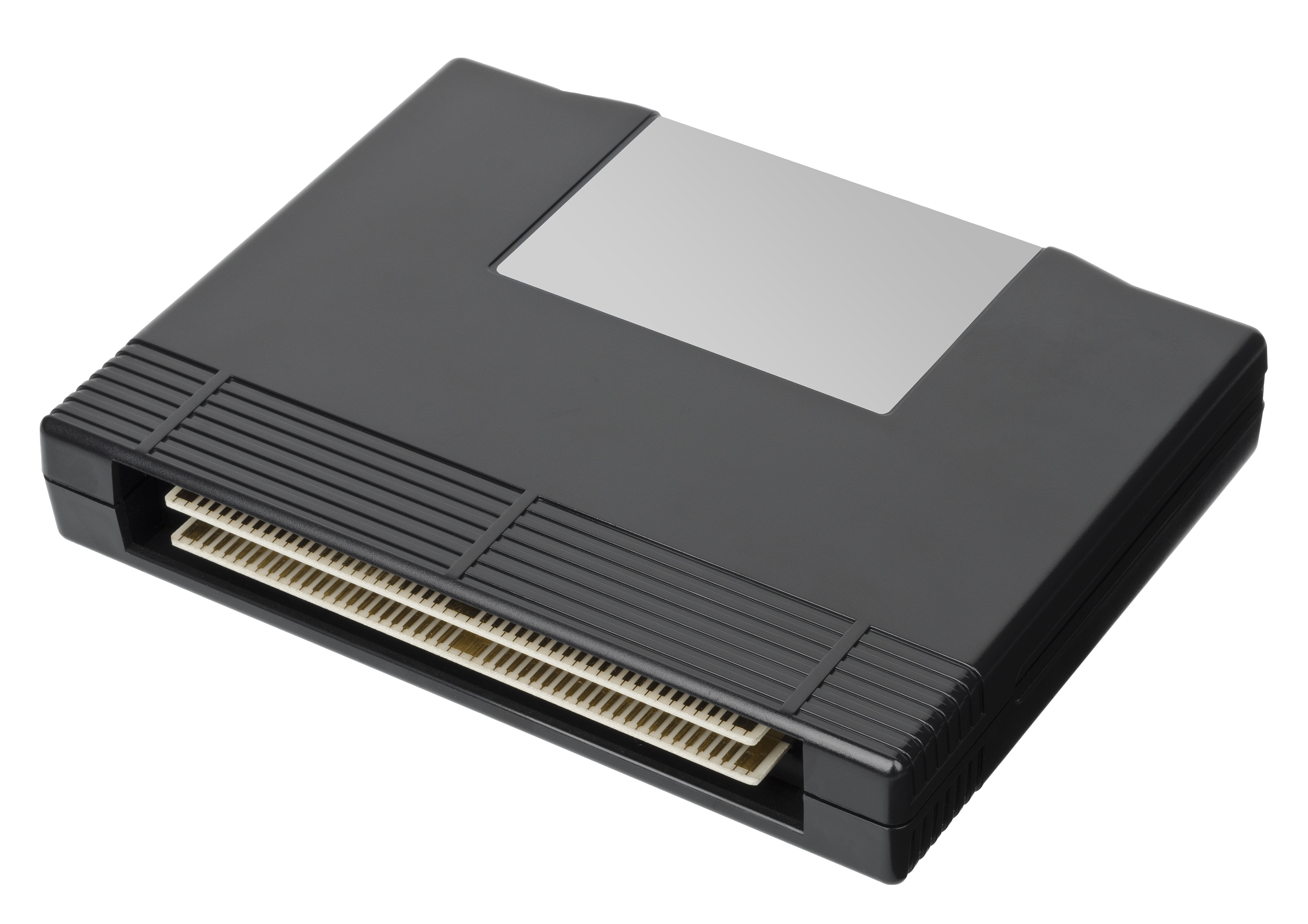 A game cartridge for the Neo Geo AES (Advanced Entertainment System), a video game console released in the US in 1991. The largest game cartridges ever released, the Neo Geo AES's games were the same ones used in the Neo Geo arcade machines. They were expensive and featured lots of memory compared to the much smaller cartridges of its competitors at the time, the Genesis and Super Nintendo. The Neo Geo AES was unique in that it was a niche system, marketed toward high-end consumers who wanted to play true arcade games in their home. The AES is merely a repackaged version of their Neo Geo MVS arcade system, where swappable games are stored on giant cartridges. The console was expensive, as were the games themselves, which could go for hundreds of dollars.